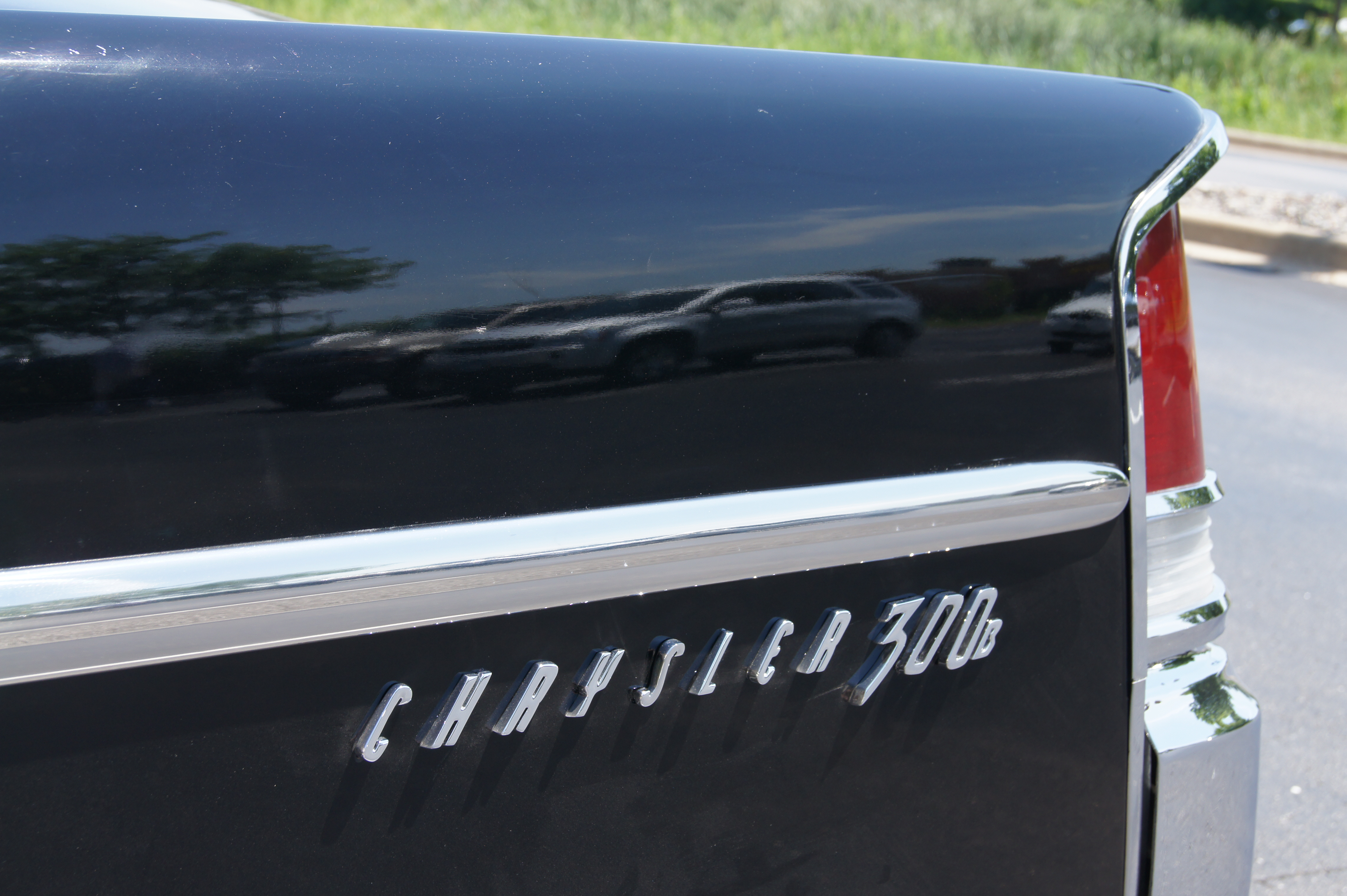 1st Combined Convention 28th Annual National DeSoto Club Convention & 44th Annual Walter P.Chrysler Club Convention July 17 - 21, 2013 Lake Elmo, Minnesota Click link below for more car pictures